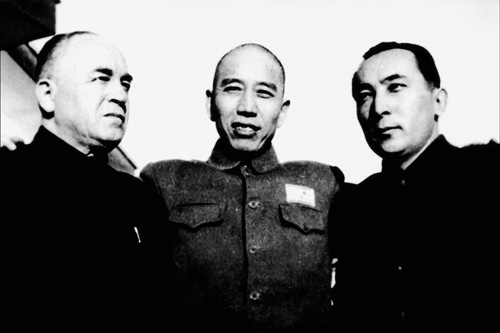 Wang Zhen (middle), Saifuddin Azizi (right), Burhan Shahidi (left)